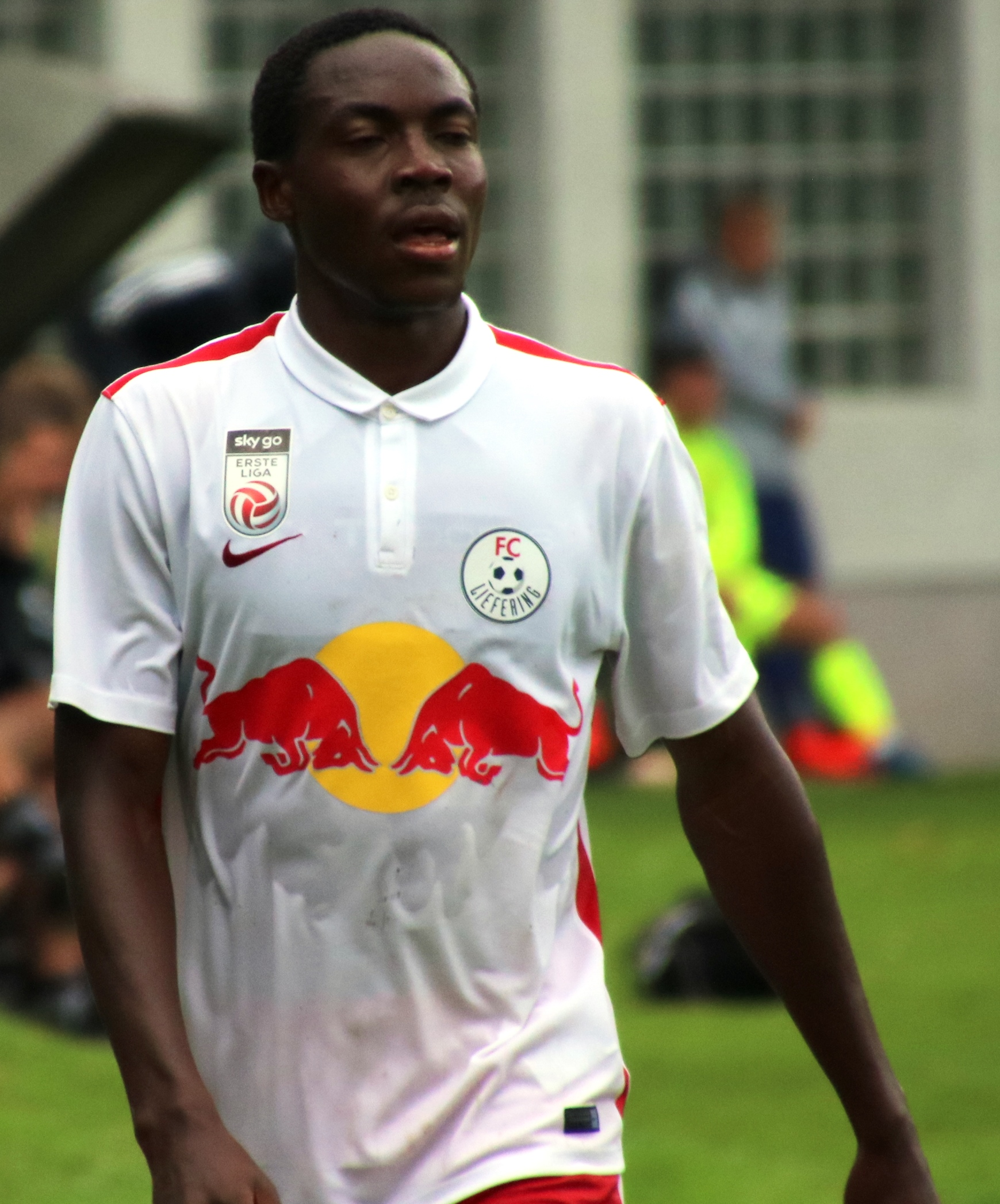 pre season match